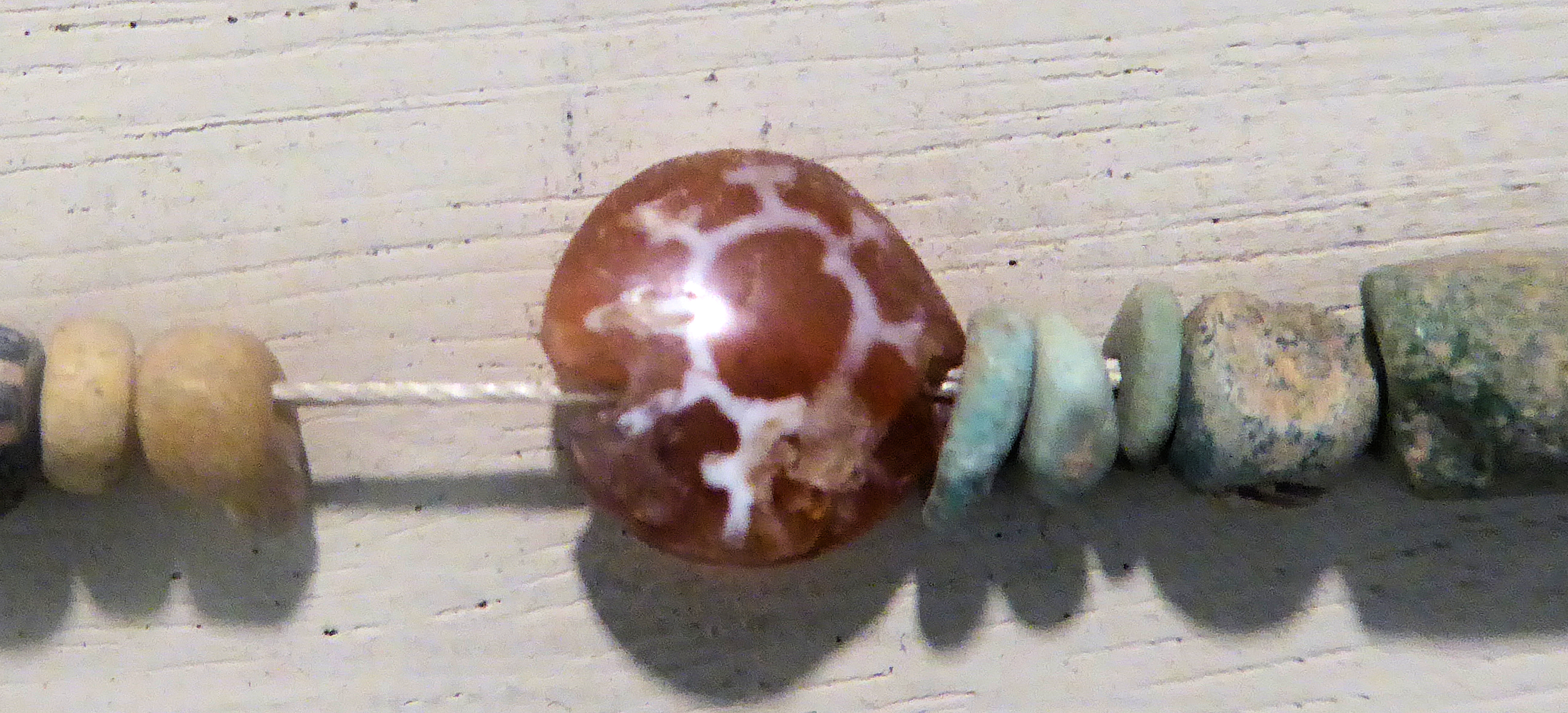 Etched carnelian beads UC30334 Egypt Ptolemaic Period, Saft El Henna. London, Petrie Museum of Egyptian Archaeology (detail)